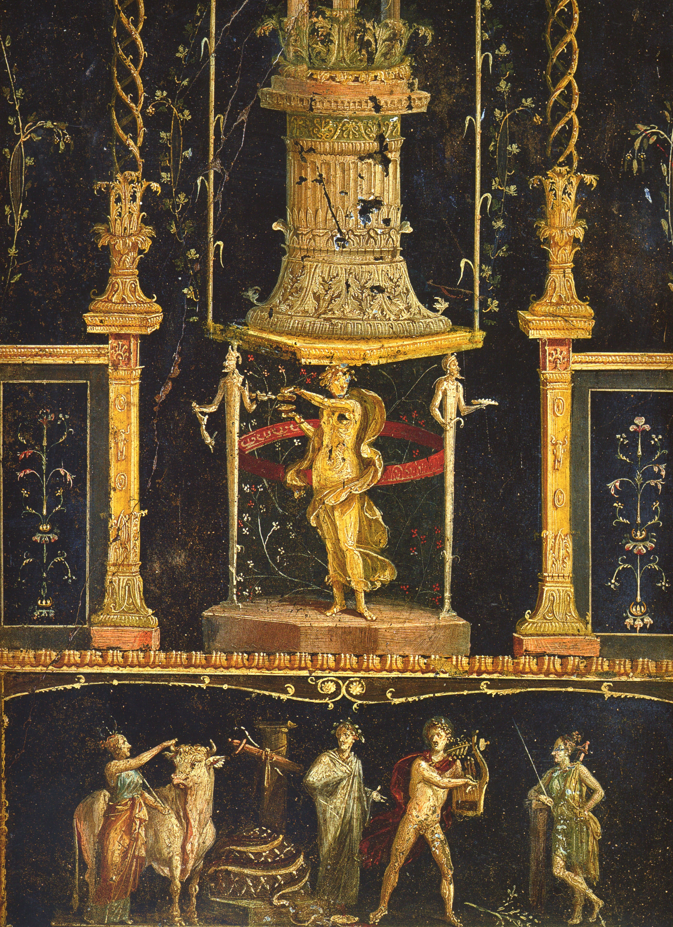 Detail from the decoration in the triclinium of the Casa dei Vettii (VI 15,1) in Pompeii. At the bottom motives from Iphigenia in Tauris by Euripides.